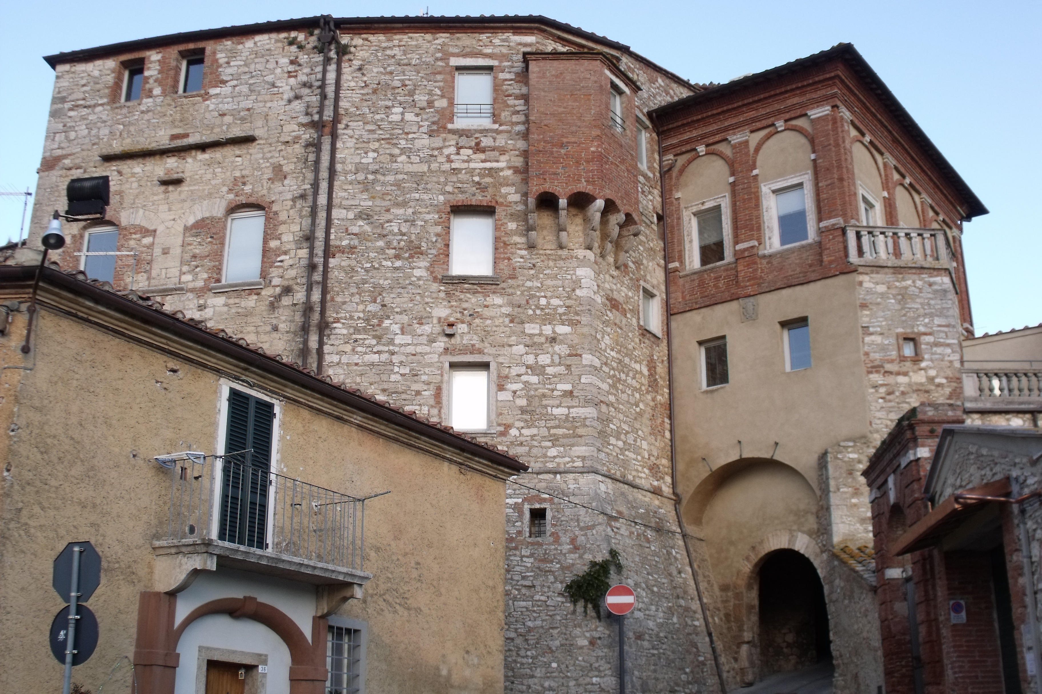 The Grancia in Serre di Rapolano (Grancia of Santa Maria della Scala in Siena) with the Defensive Gate Porta San Lorenzo, hamlet of Rapolano Terme, Province of Siena, Tuscany, Italy